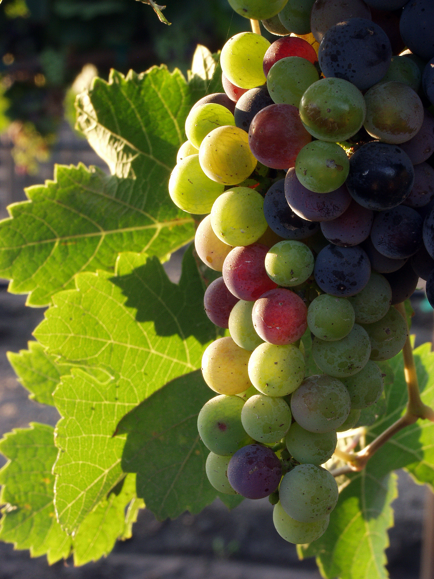 Grapes from the Guadalupe Valle, Baja California, Mexico, during the pigmentation stage.